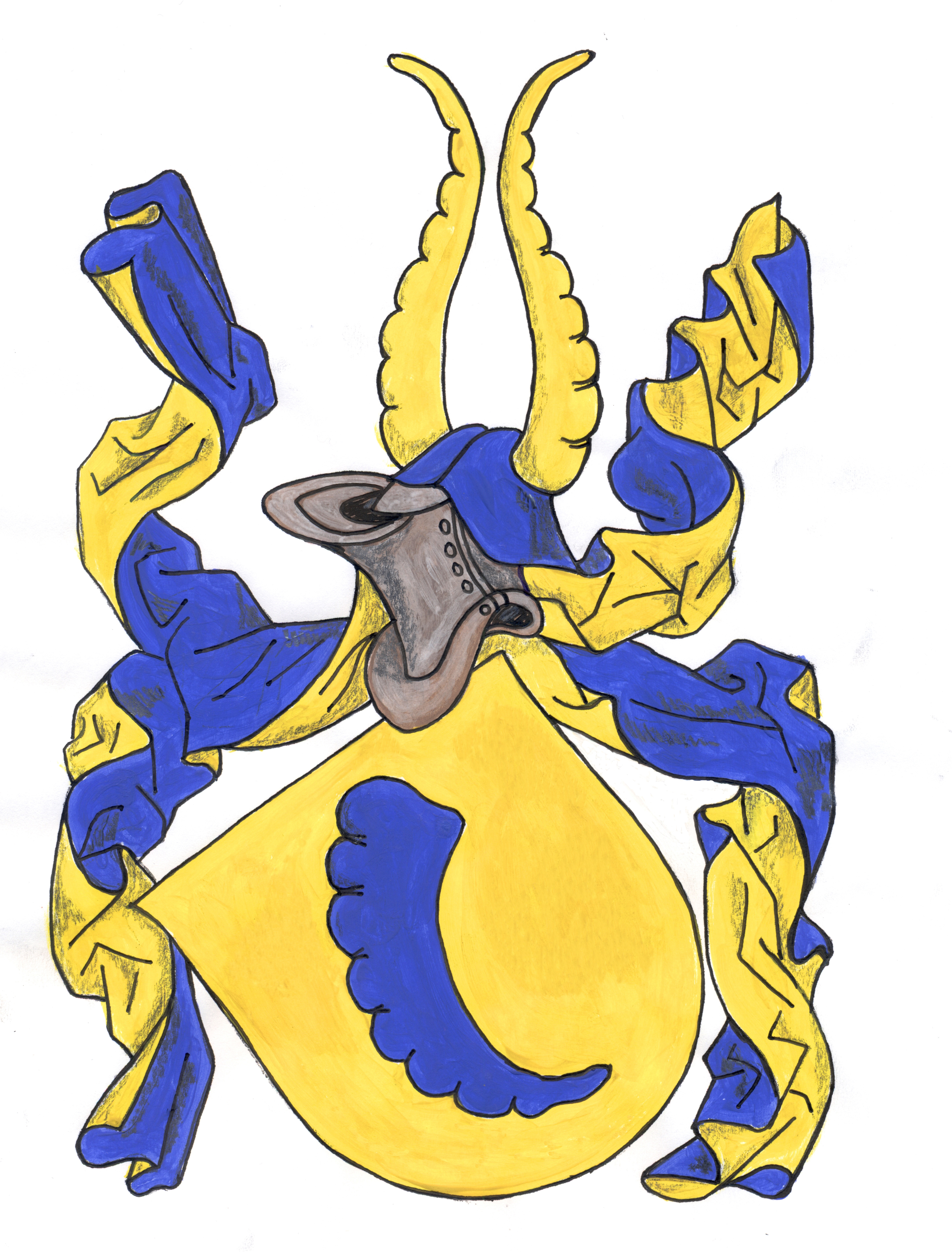 Felben coat of arms